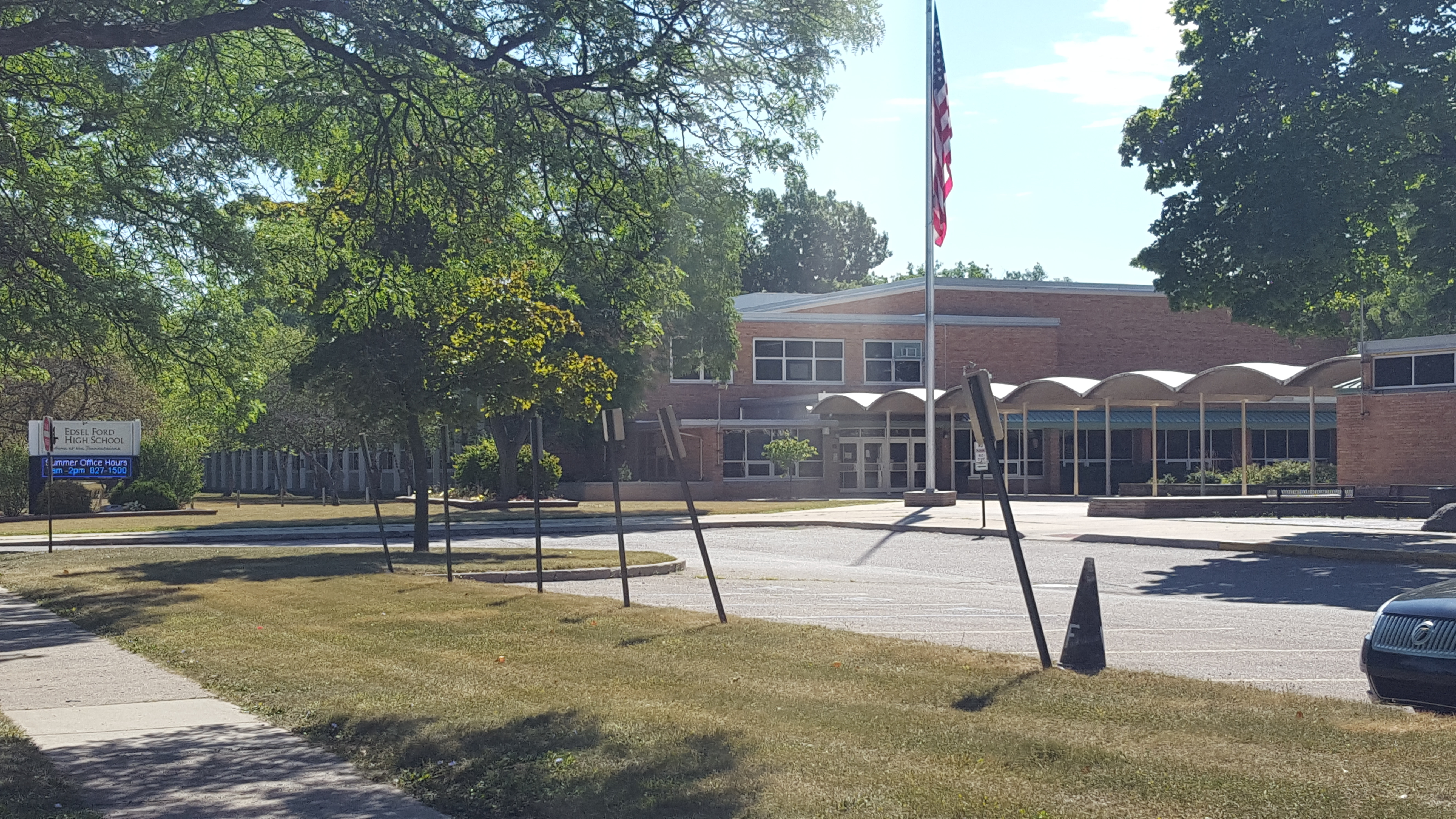 Edsel Ford High School, Deaborn, Michigan